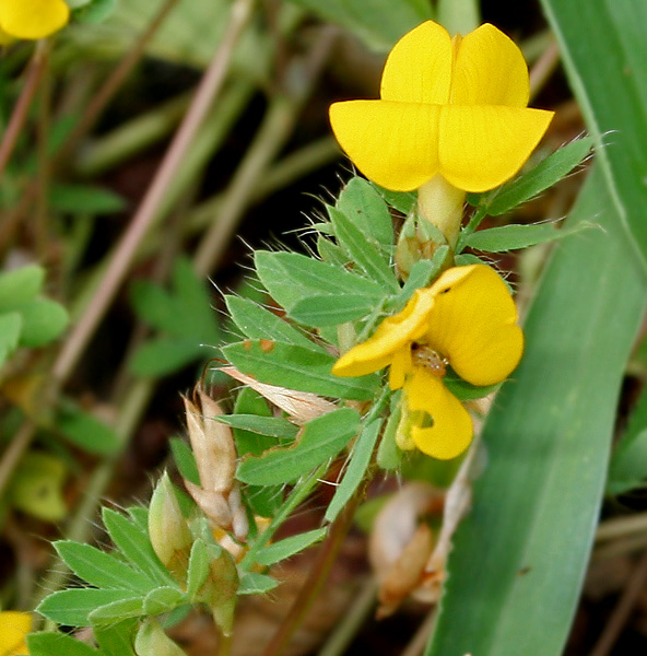 Smithia conferta Sm. (syn. Smithia geminiflora Roth) in Goa, India.